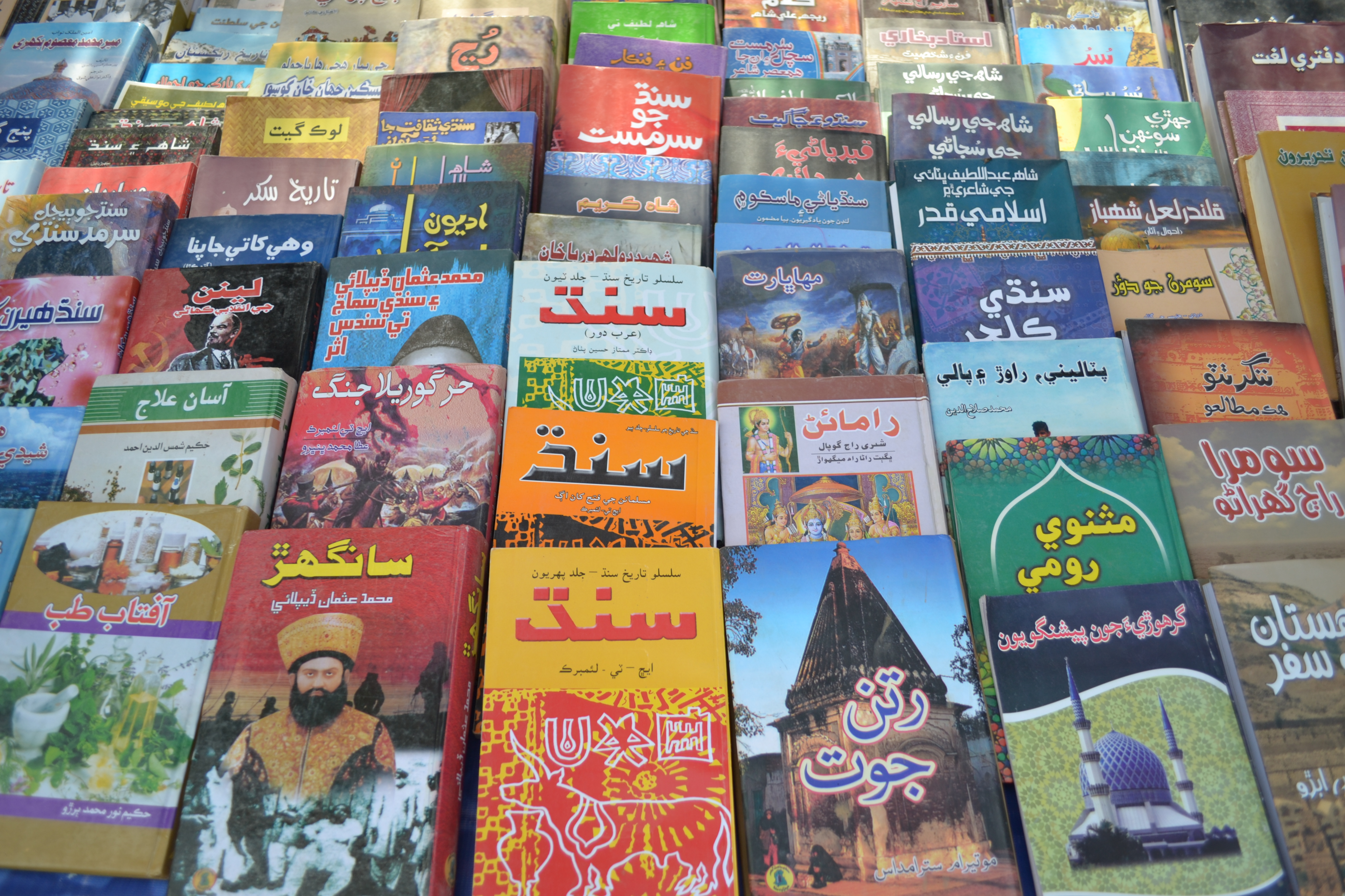 Sindhi Literature book shop at Lok Virsa Islamabad.